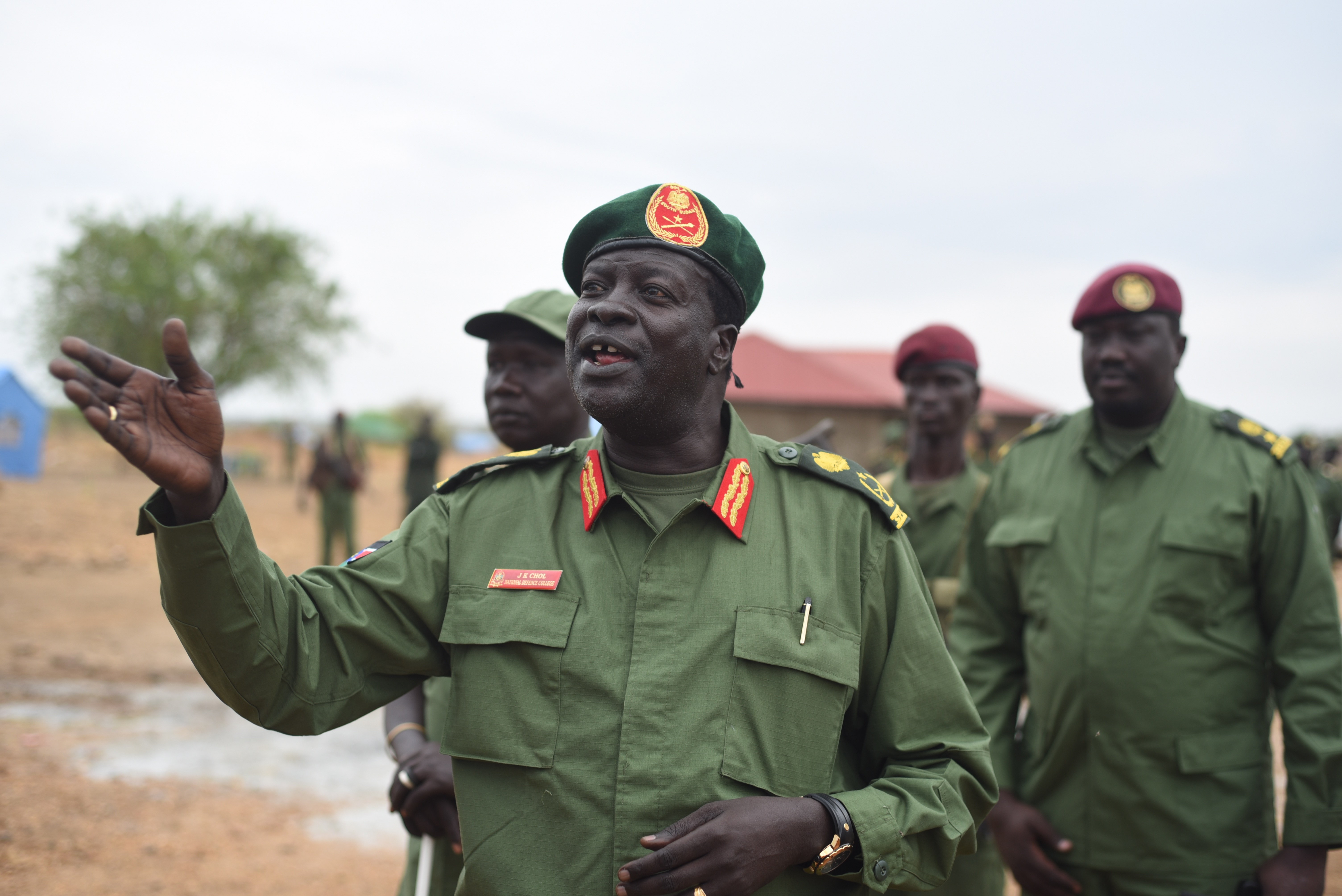 SPLA-IO General James Koang speaks to his soldiers in Juba during peace talks with the government in April 2016.